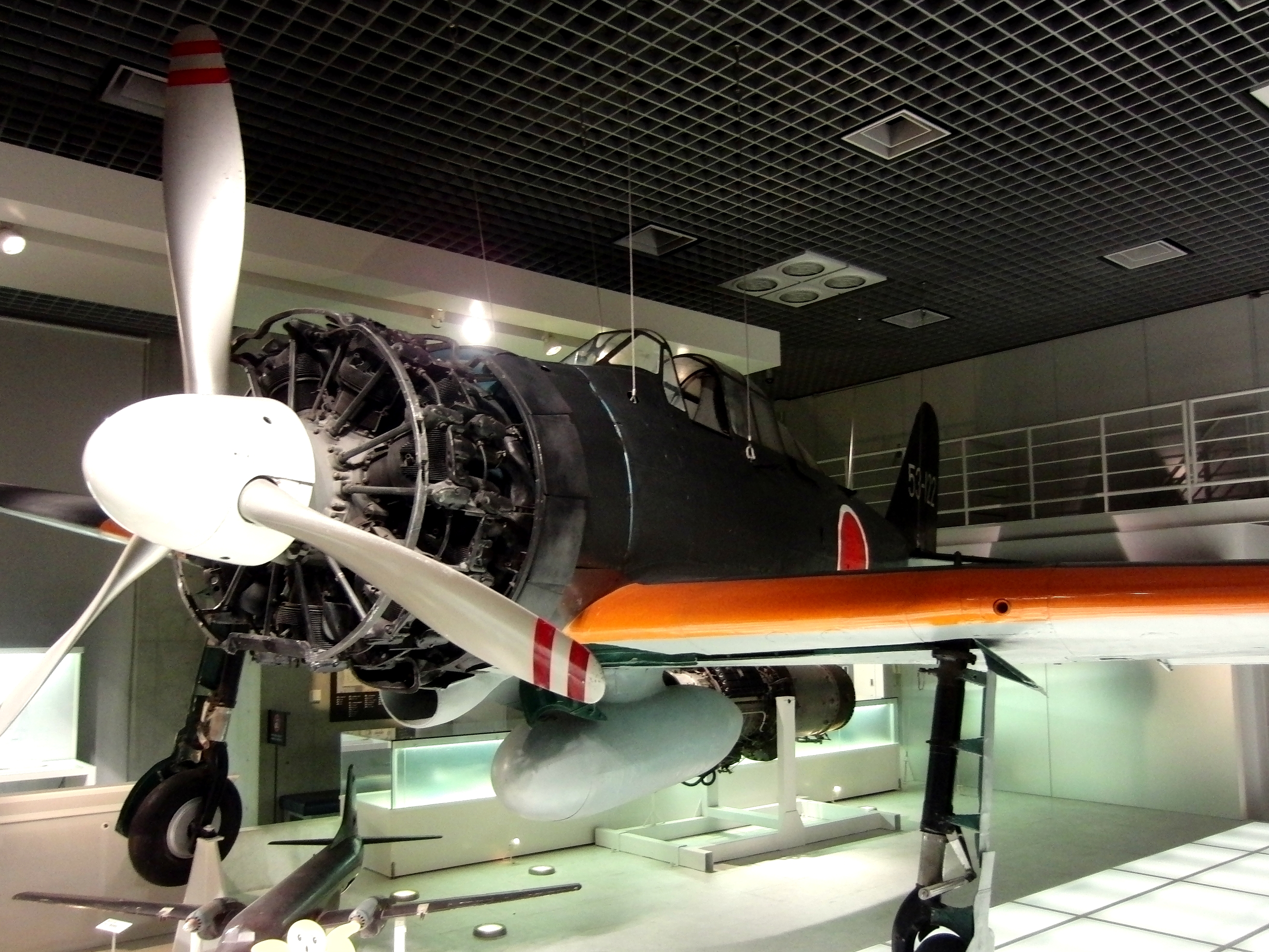 Mitsubishi A6M Zero (Zero Fighter) Model 21. Exhibit in the National Museum of Nature and Science, Tokyo, Japan.